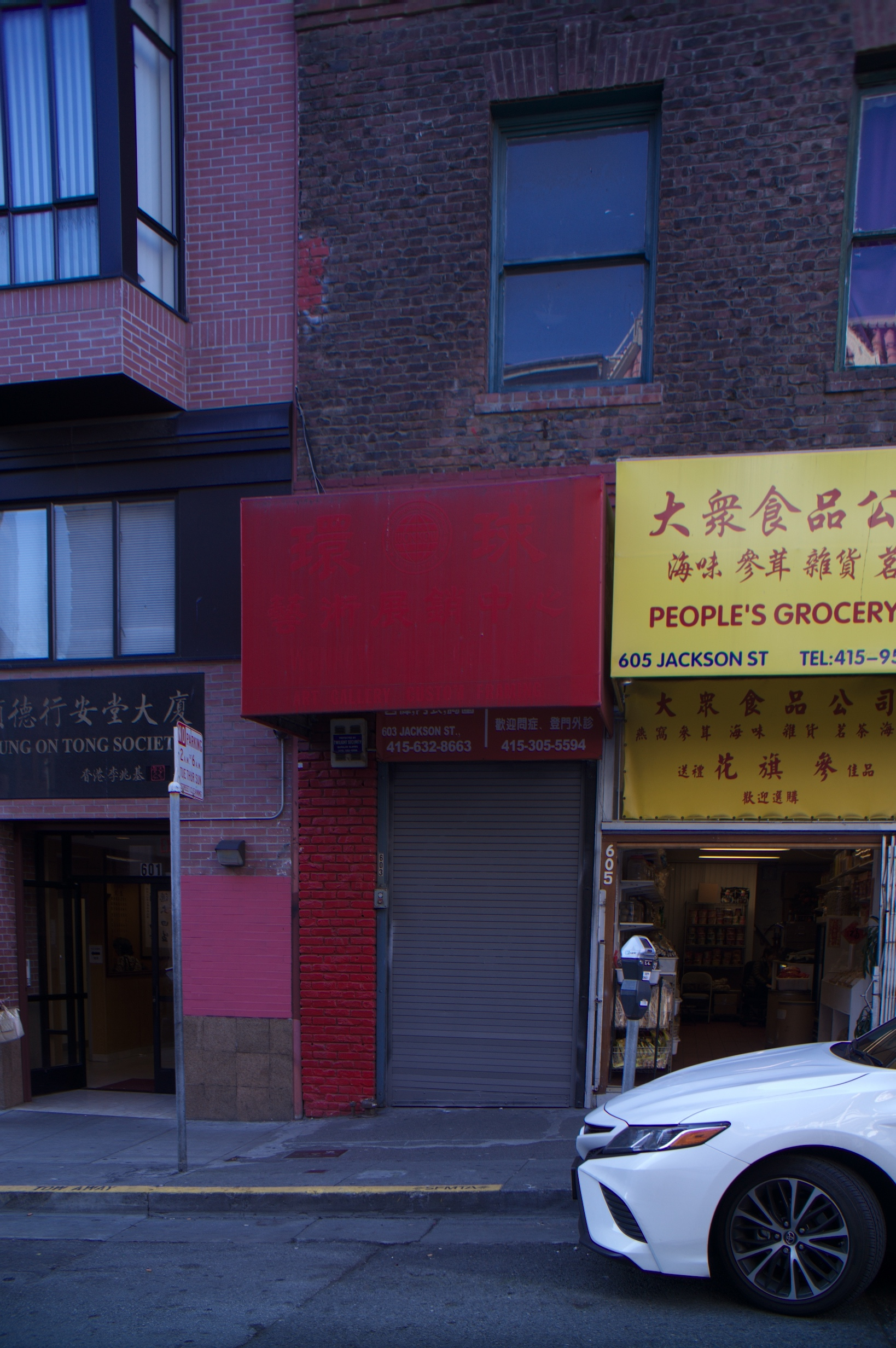 603 Jackson is really a small space.